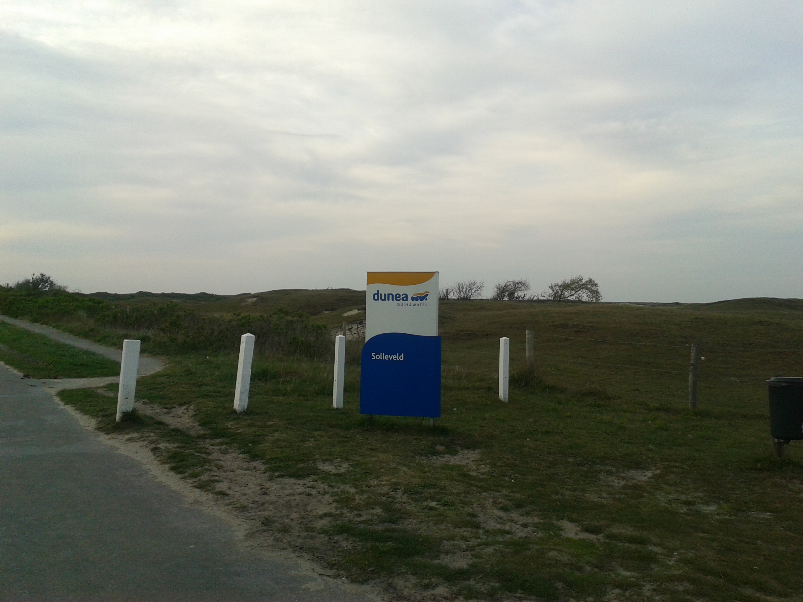 Waterwingebied Solleveld